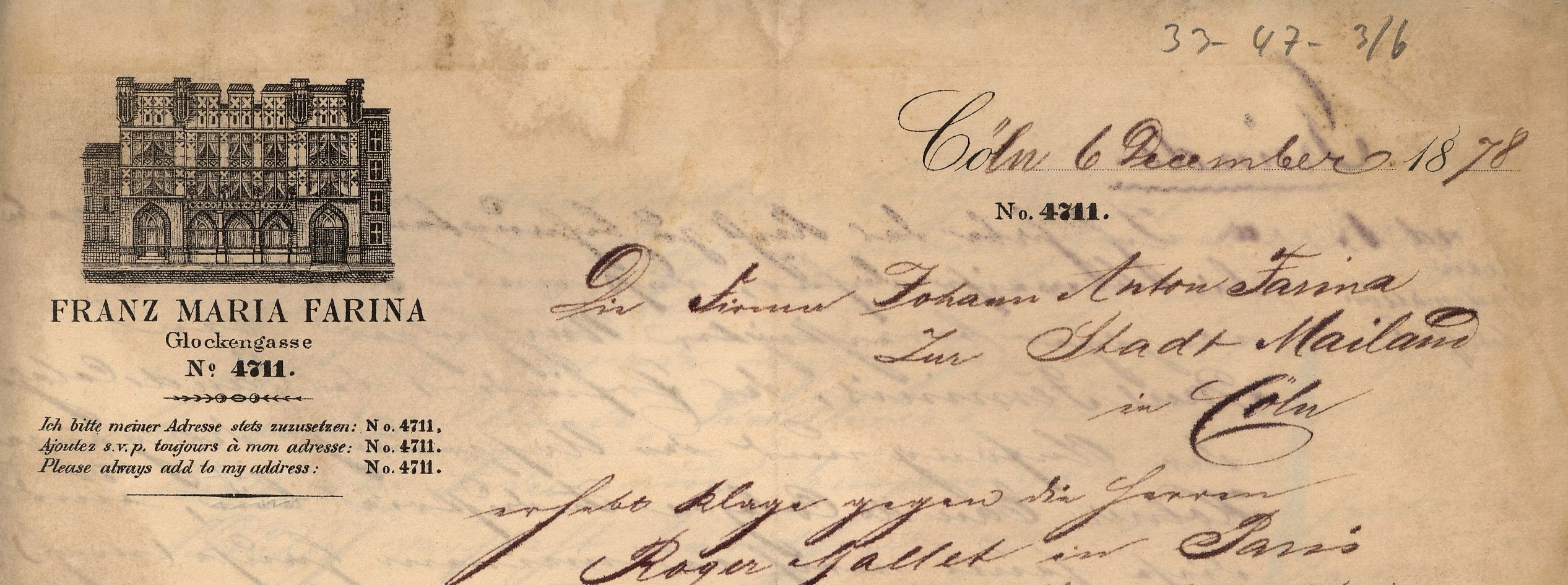 letterhead of company "Franz Maria Farina" in Cologne